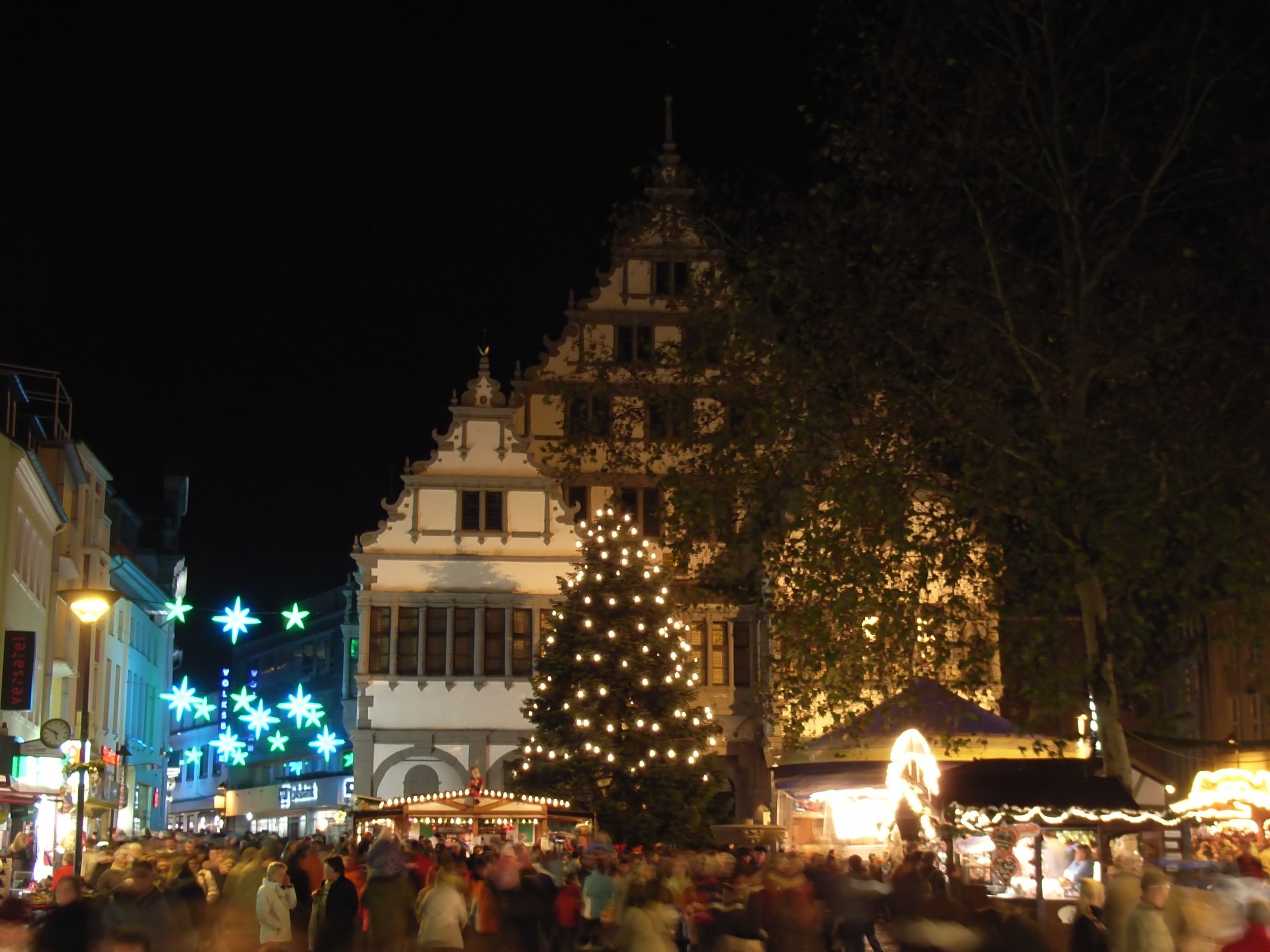 Paderborn, Germany: Christmas market at the Rathausplatz.